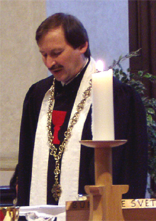 Photograph of Tomáš Butta (1958- ), patriarch of the Czechoslovak Hussite Church